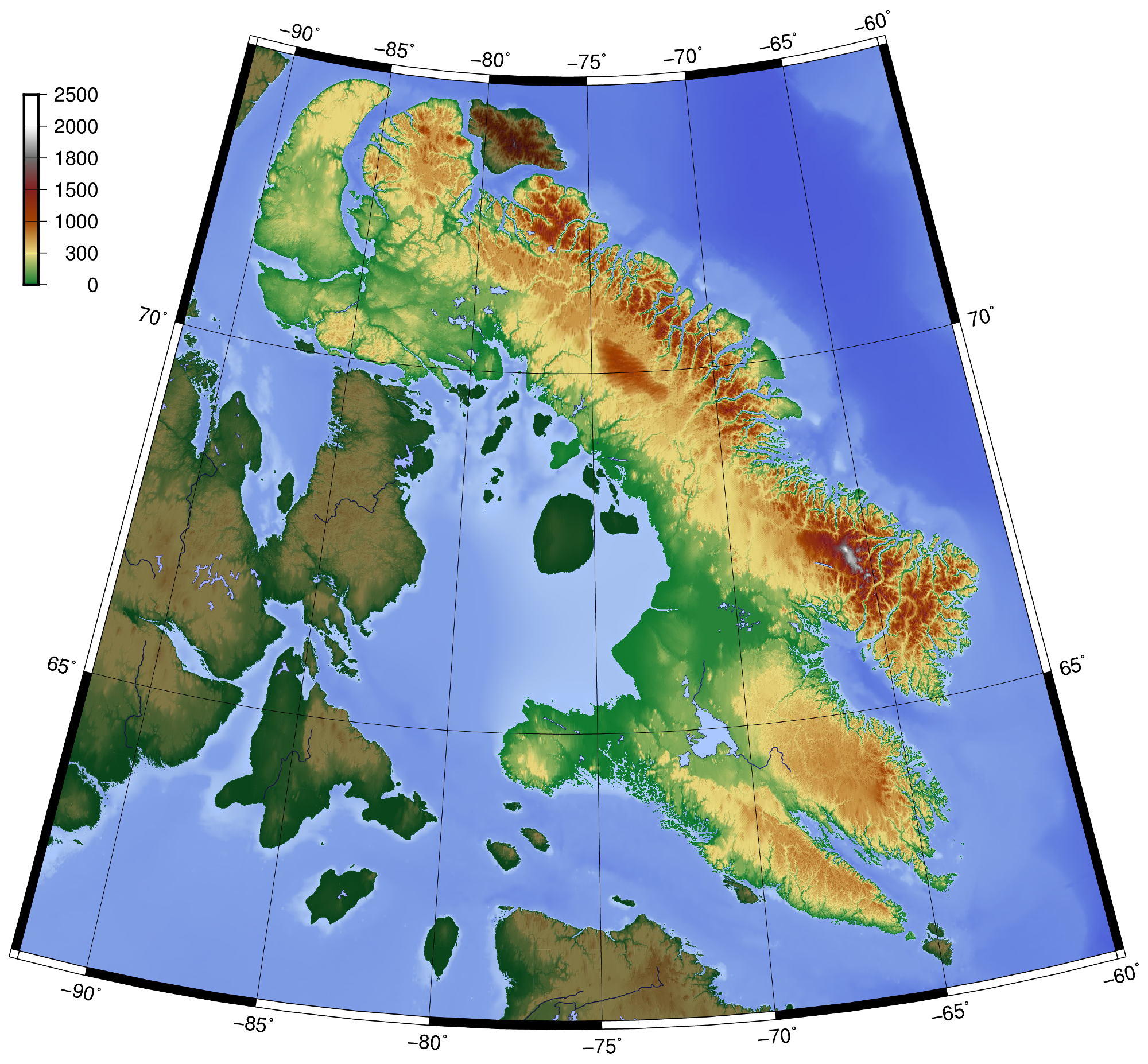 Topography of Baffin Island, created with GMT 5.2.1